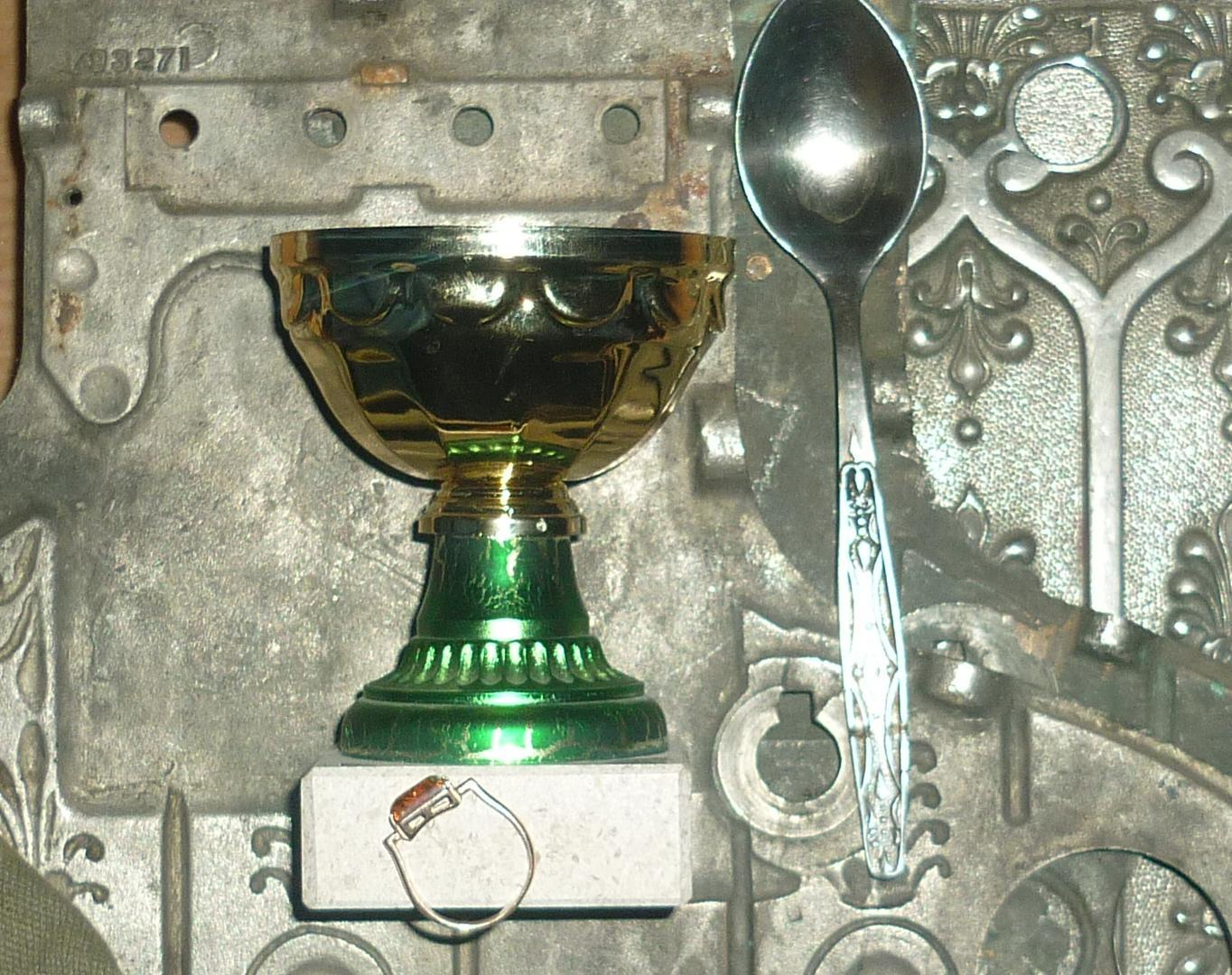 metal